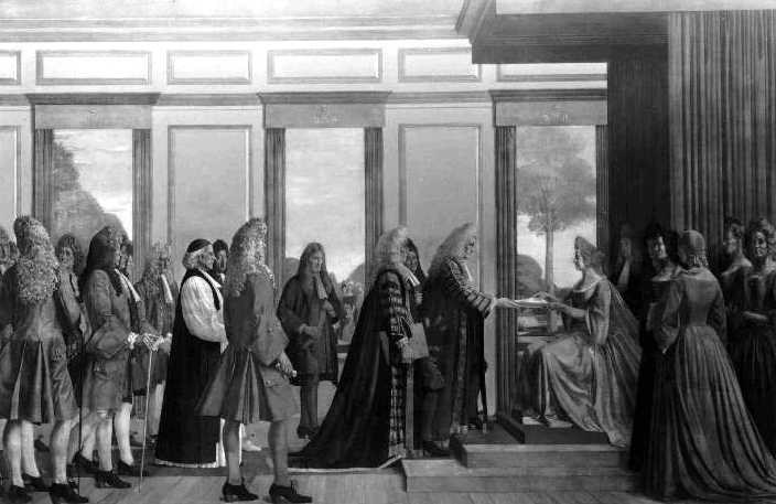 The presentation of the Articles of Union to Queen Anne in 1707 is shown in this painting titled The Parliamentary Union of England and Scotland 1707 by Walter Thomas Monnington which hangs in the Palace of Westminster, House of Commons St. Stephen's Hall (WOA 2599), London U.K.